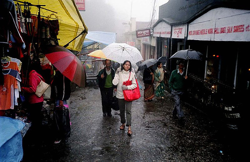 A Darjeeling street during heavy rain. ಕನ್ನಡ: ಬಿರುಮಳೆಯಲ್ಲಿ ಚಿತ್ರಿಸಲಾದ ಡಾರ್ಜಿಲಿಂಗ್‌ನ ದಾರಿ.